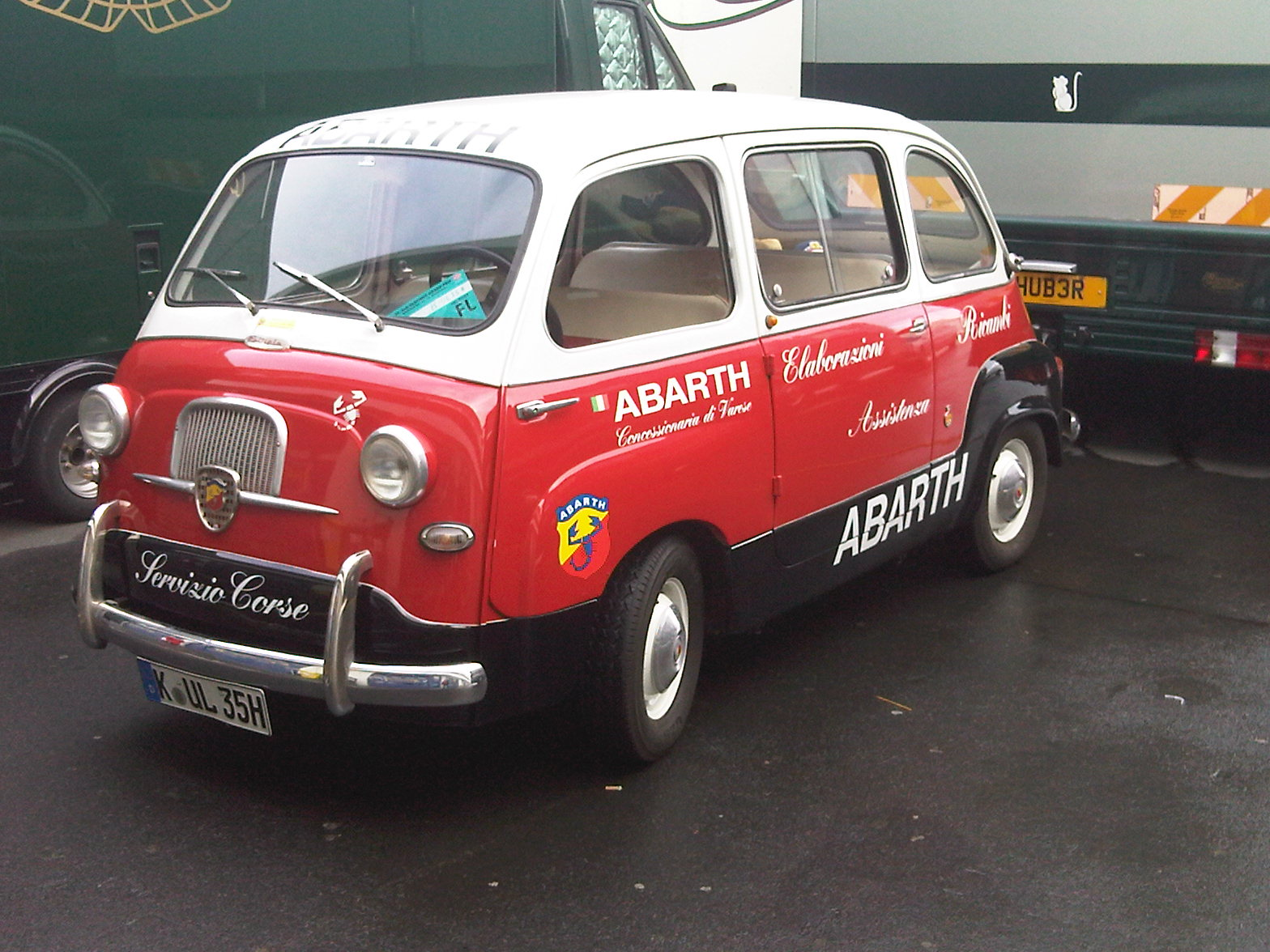 Fiat 600 Multipla Abarth (39. AvD Oldtimer-Grand-Prix, Nürburgring 12.-14.08.2011)